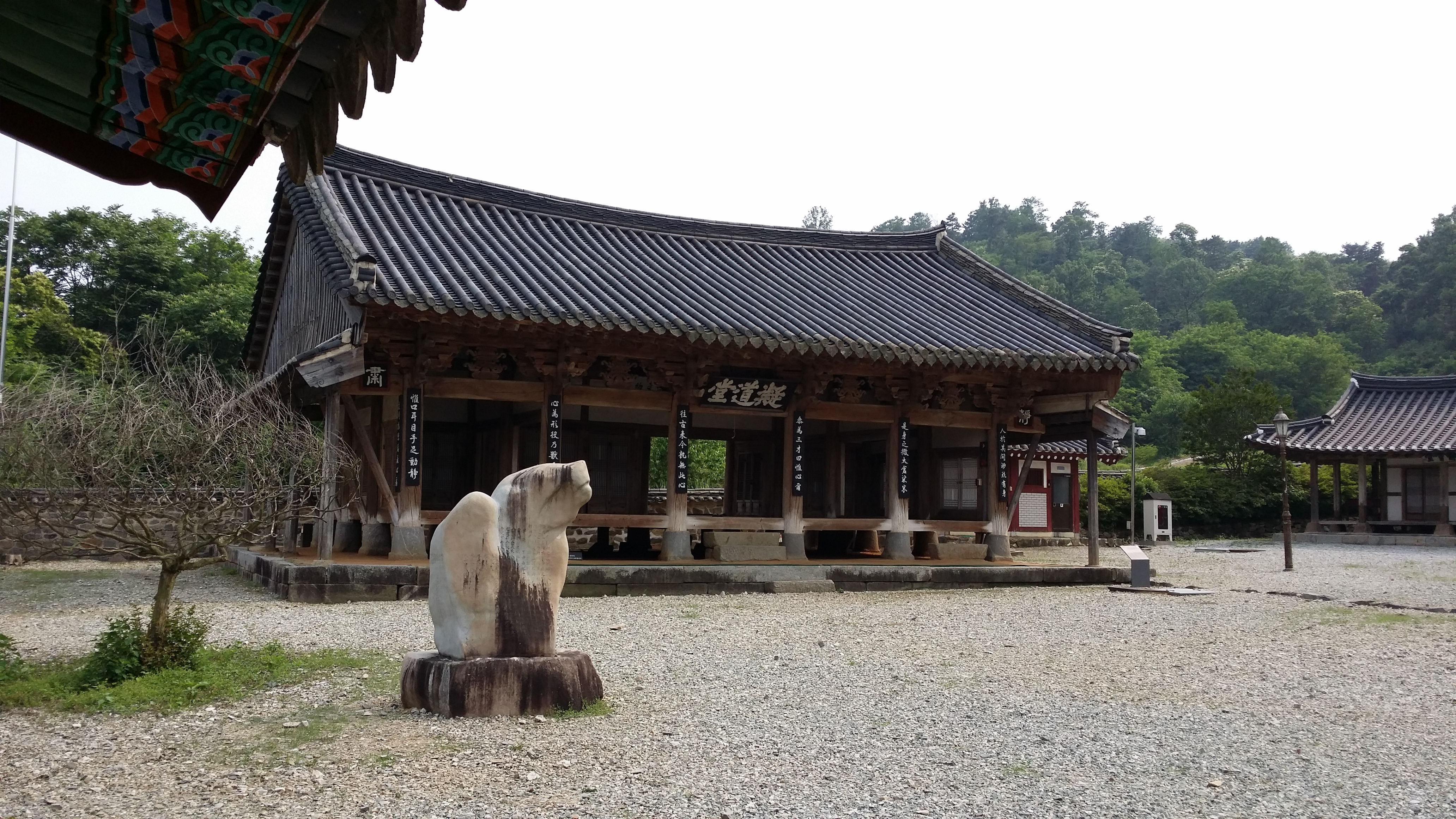 Classroom at the Don-am Seowon